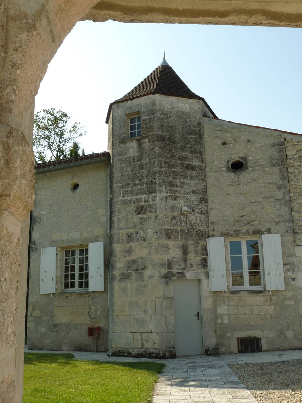 town hall of Ars, Charente, SW France